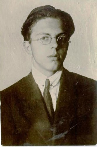 Srečko Kosovel (18 March 1904 – 26 May 1926) was a Slovene expressionist poet who evolved towards avant-garde forms.